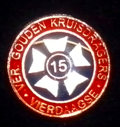 Lustrum award 15x International Nijmegen Four Days Marches